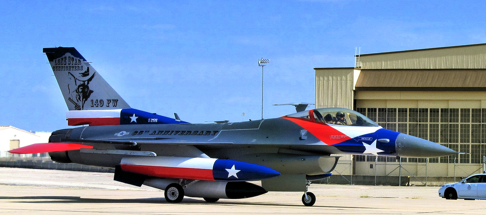 182d Fighter Squadron General Dynamics F-16C Block 30F Fighting Falcon 87-255. The Texas Air National Guard's 149th Fighter Wing's flagship F-16 returning to Lackland Air Force Base after being painted to honor the 65th anniversary of the unit's affiliation with the Air National Guard, Sept. 29, 2011. (Air National Guard photo by Staff Sgt. Phil Fountain/Released)